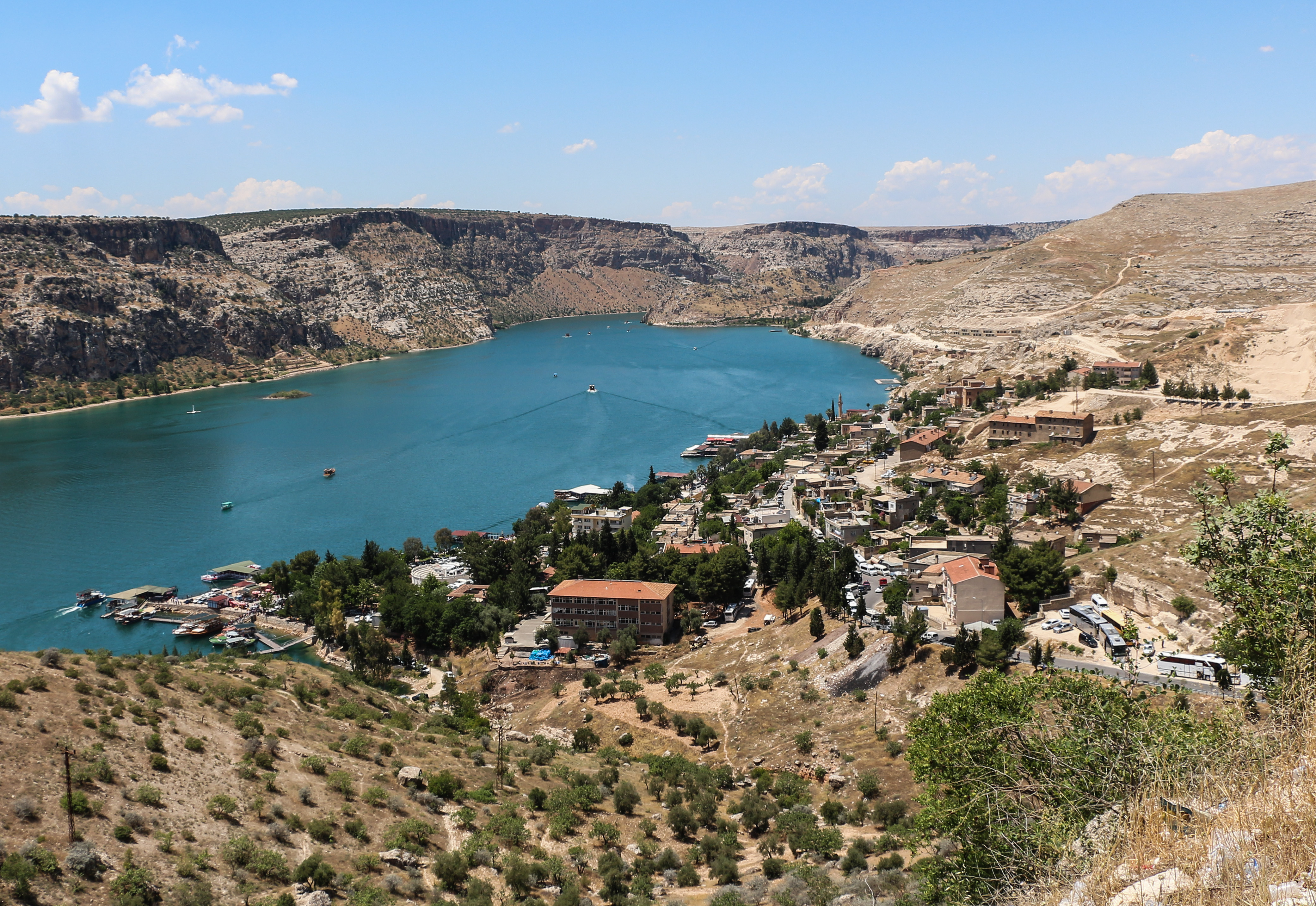 The town of Halfefi on the Euphrates, Turkey